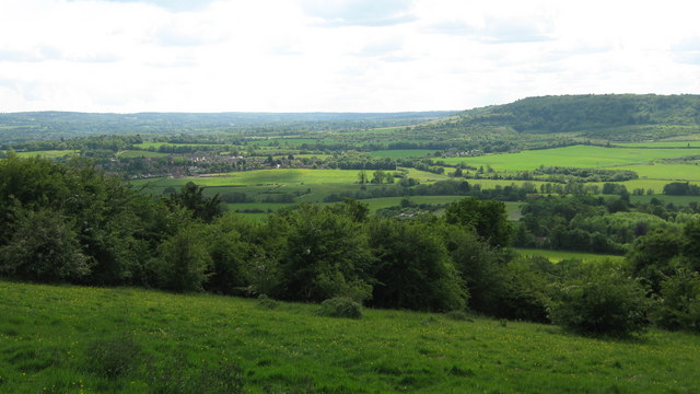 View towards Otford On footpath No.SR27 from Fackenden Lane to A225 Shoreham Road. Pilots Wood is on the right above the town.